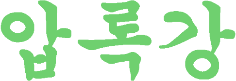 The logo of a North Korean football (soccer) club of Amnokgang Sports Group